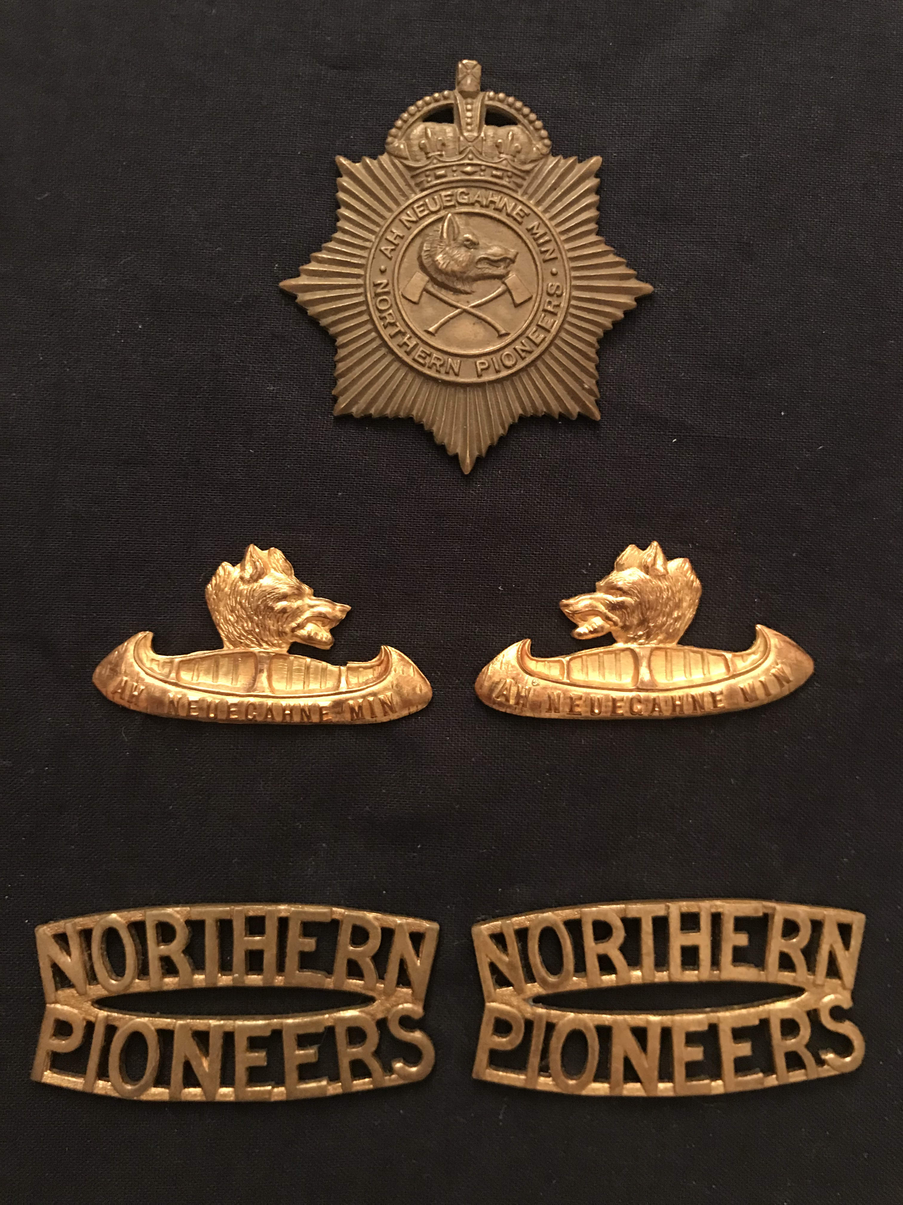 Canadian military heritage